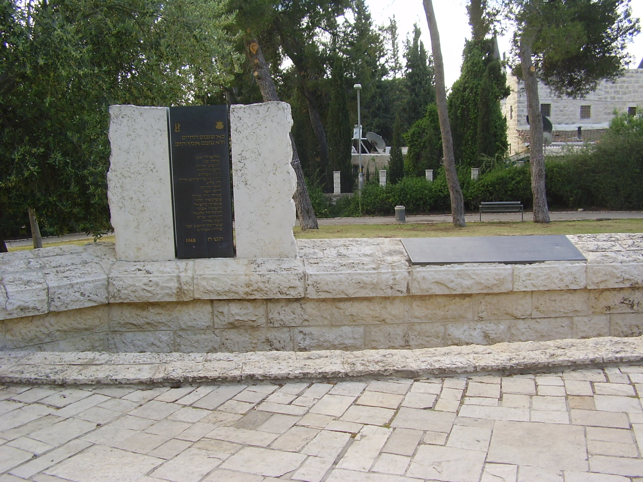 Monument to the fallen in St. Simon monastery in the independence war